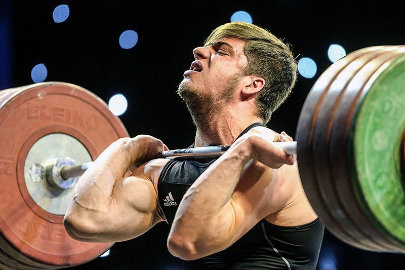 Semen Linder